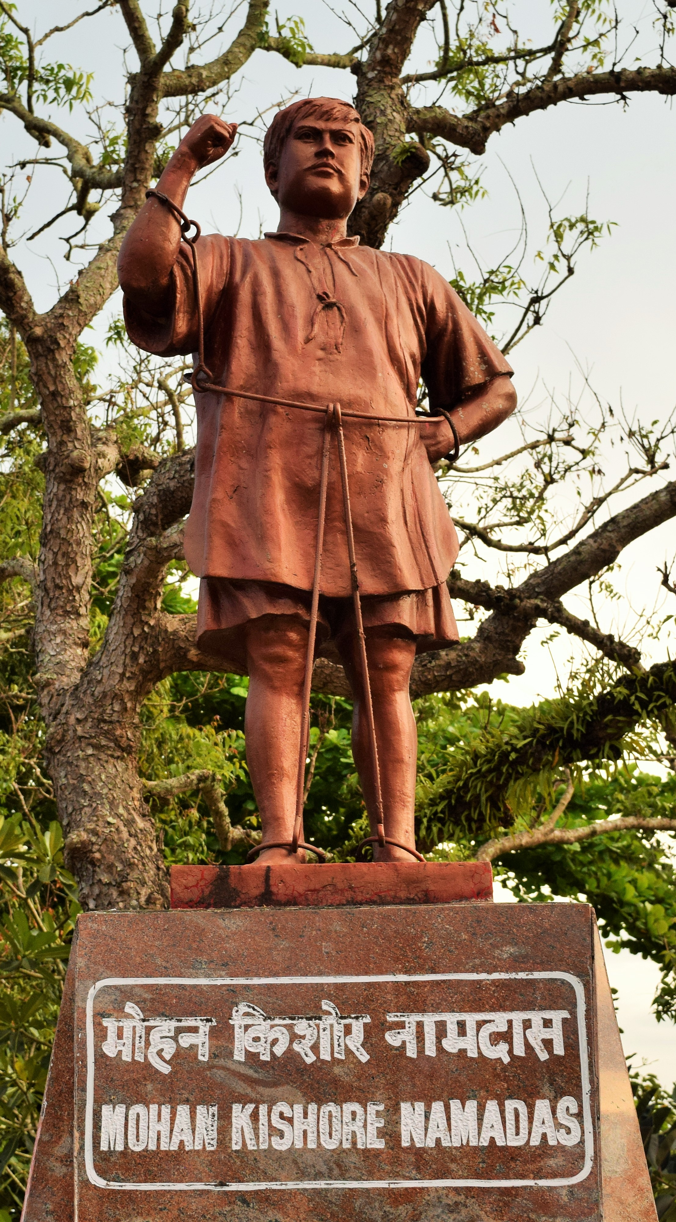 A statue of Mohan Kishore Namadas at Veer Svarkar Park